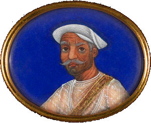 A handsome miniature of Koer Singh (Kunwar Singh) found during the capture of the Nawab of Farrukhabad's palace in 1857. The Nawab was something of a reluctant rebel, having been forced into supporting the Indian Rebellion of 1857 by the presence of rebel sepoys on his territory. Yet he clearly felt an affinity for the rebel Indian rulers depicted in the miniatures as they were found on display in his bedchamber.